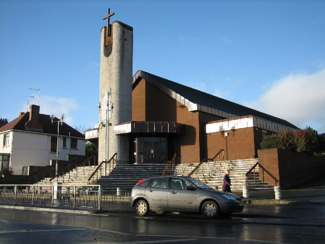 St. Agnes' Church Andersonstown. Celebrates its 50th anniversary this year.